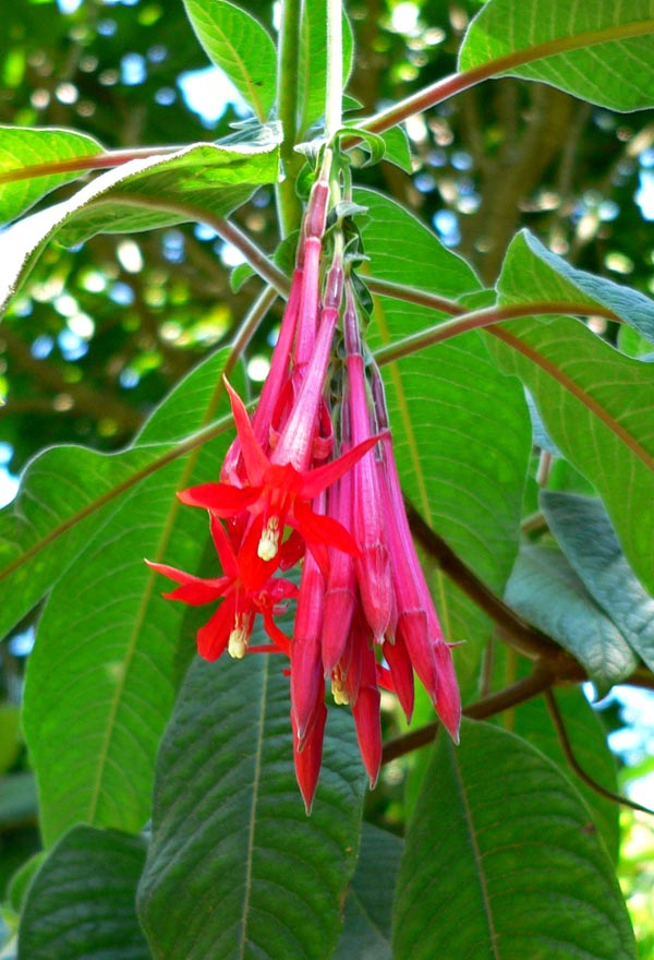 Photo of Fuchsia corymbiflora (syn. Fuchsia boliviana) at the San Francisco Botanical Garden